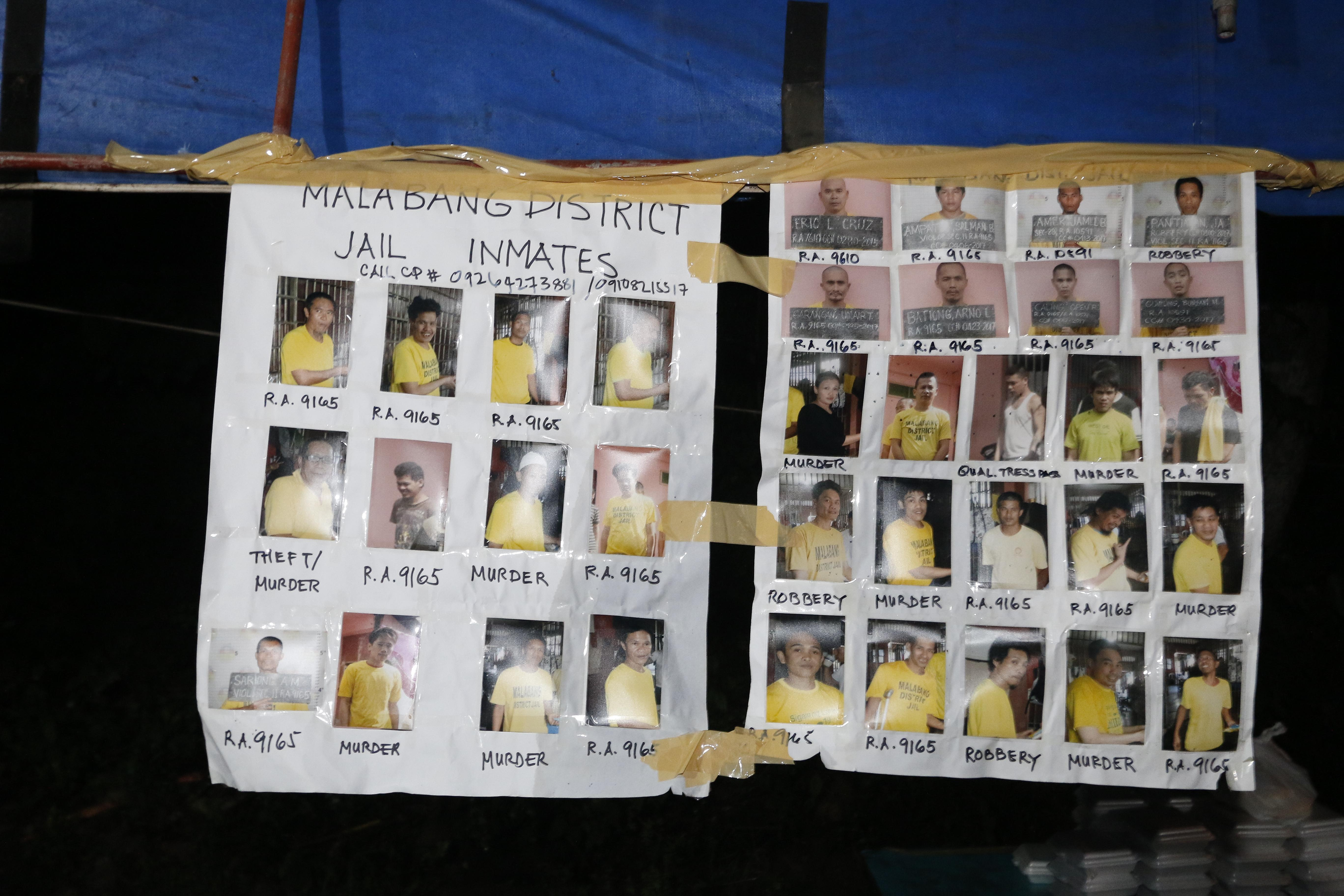 Photographs of Malabang District Jail Inmates who were broken out of jail amidst the Marawi crisis.